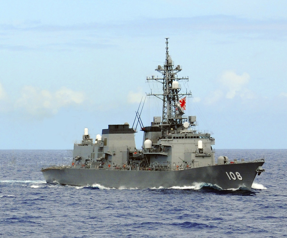 The Murasame-class destroyer JS Akebono (DD-108) transits the Pacific Ocean in a 32-vessel formation with US and Korean ships as part of a photo exercise of the Rim of the Pacific (RIMPAC) 2010 combined task force in the north of Hawaii, July 24, 2010.